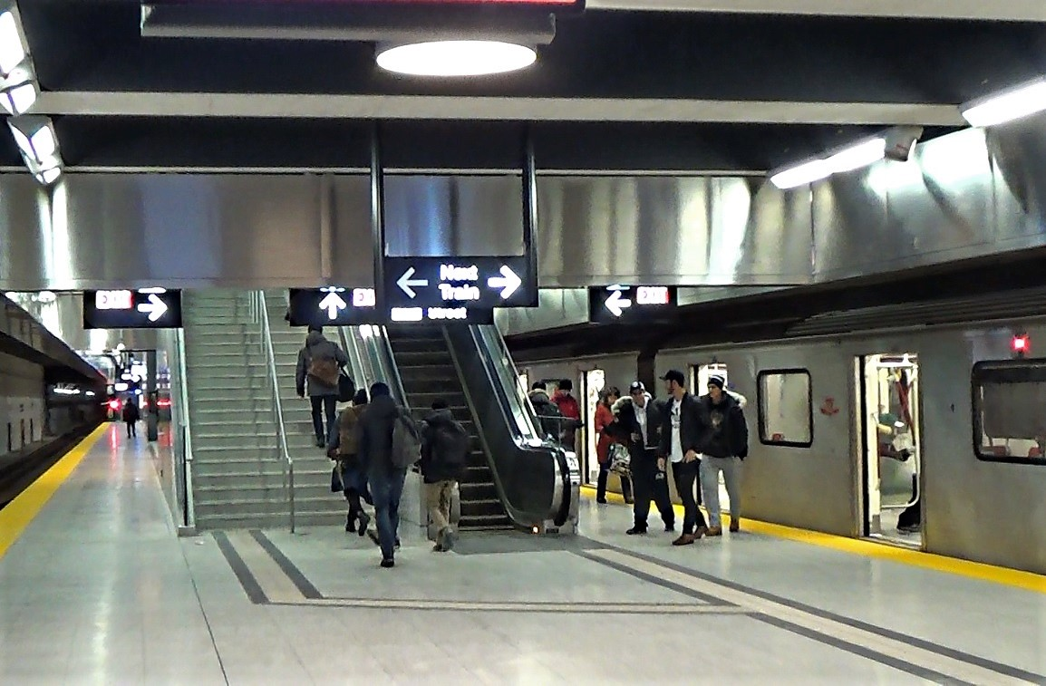 Vaughan Metropolitan station platform